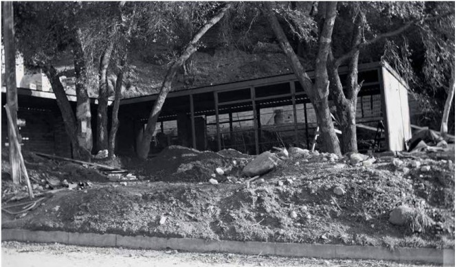 Vue de la maison réalisée dès 1951